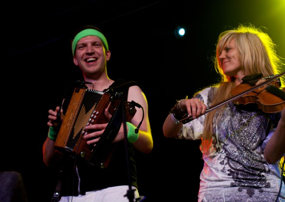 Photo by Jessica Shepherd